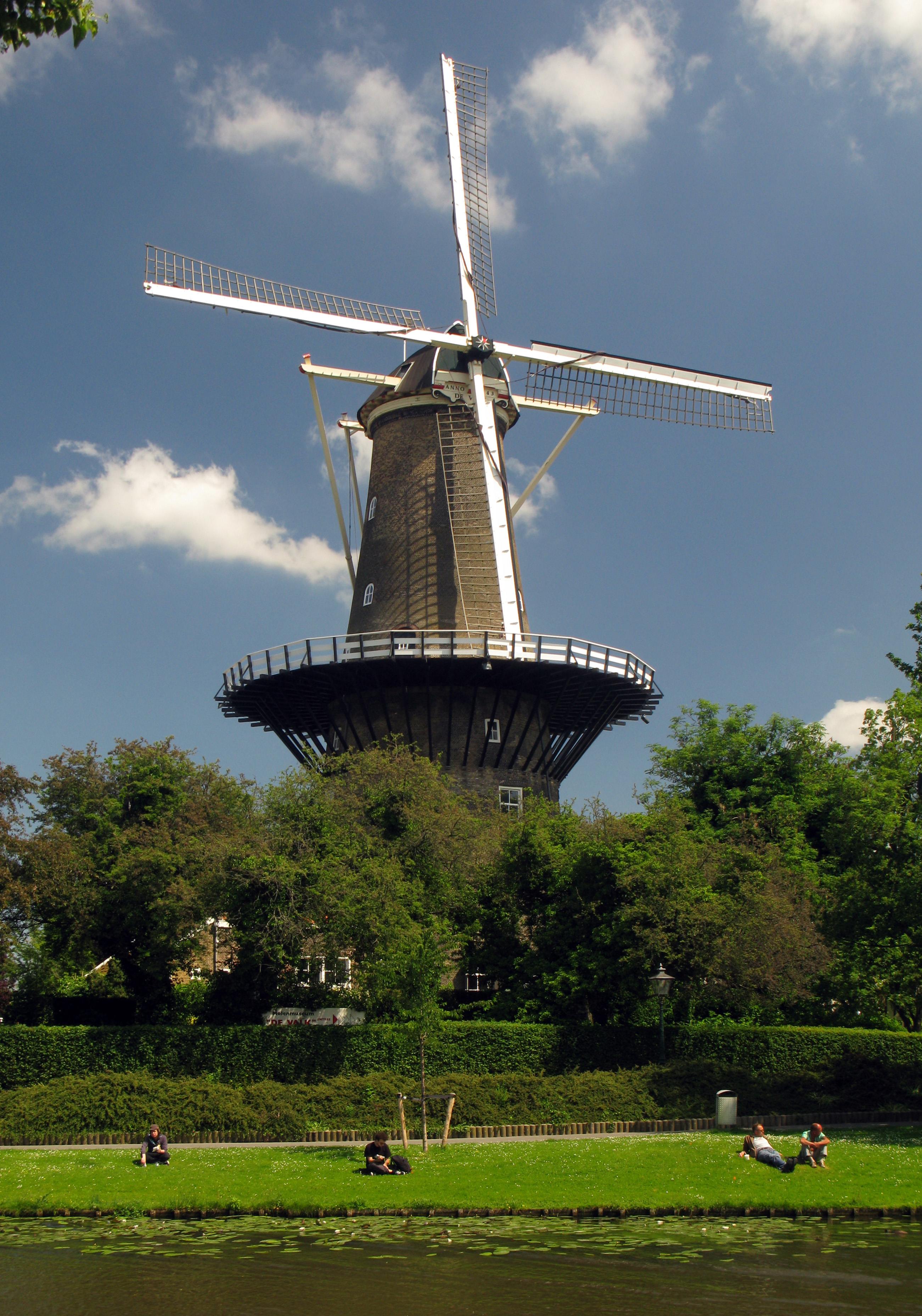 Windmill 'de Valk, Leiden, Netherlands